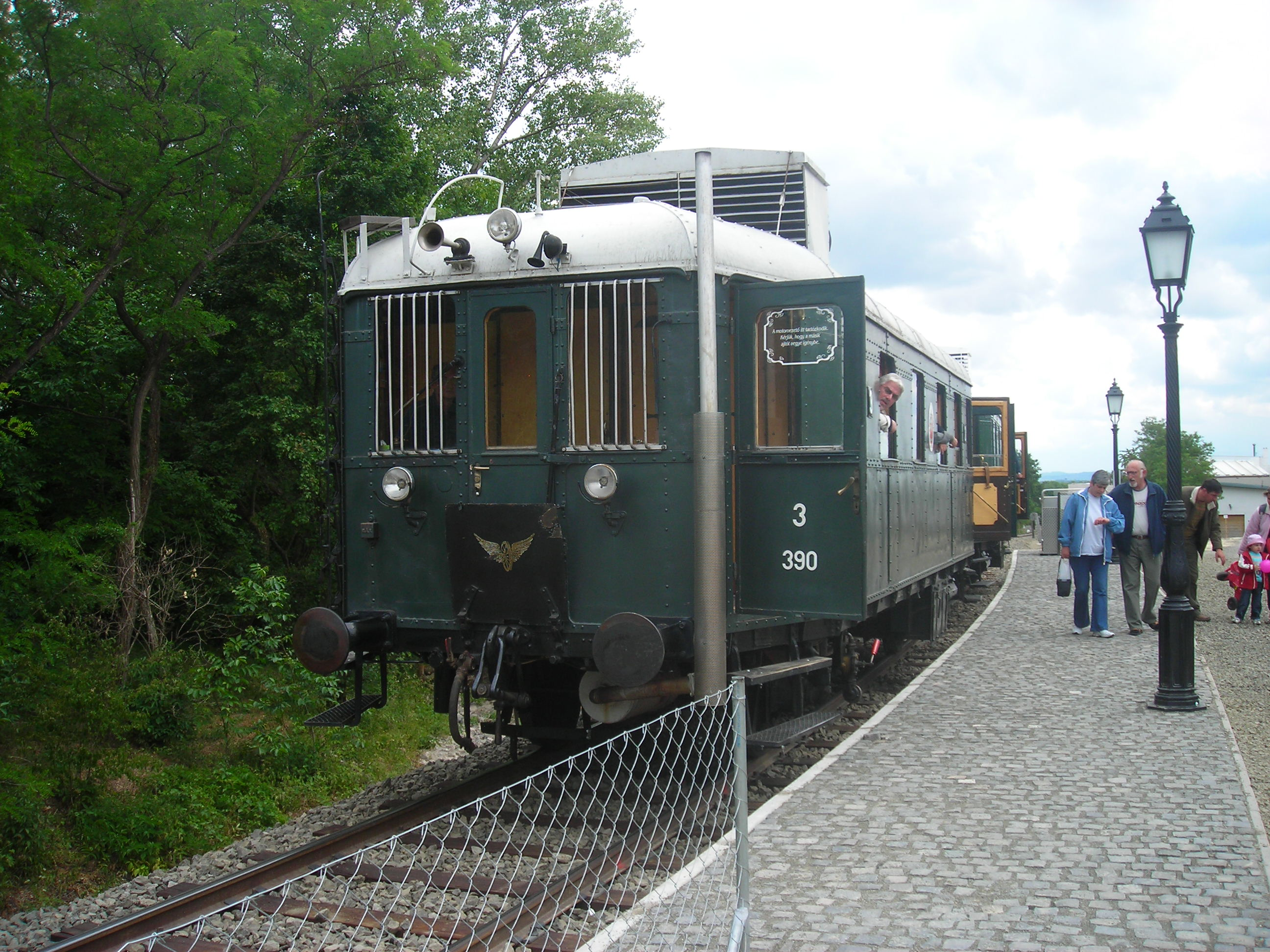 BcMot railcar in Szentendre Skanzen